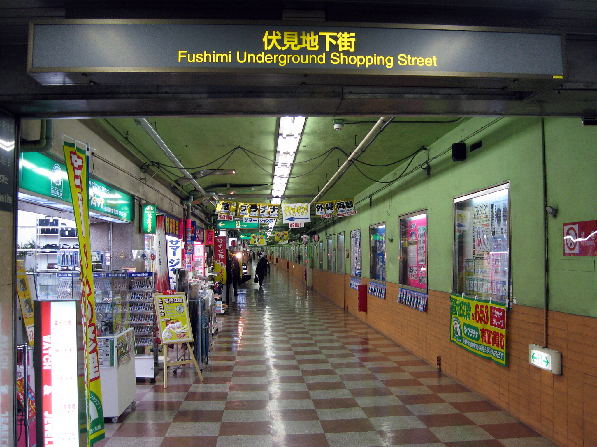 Fushimi Underground Shopping Street in Nagoya, Aichi, Japan (View from Fushimi Station East Gate)